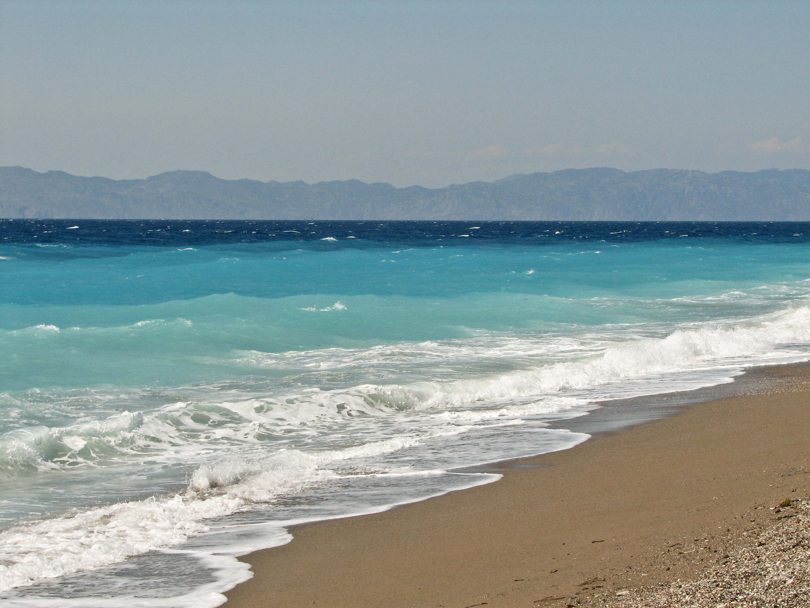 Ixia beach, Rhodes, Greece. At the horizon, the Turkish coast is visible.